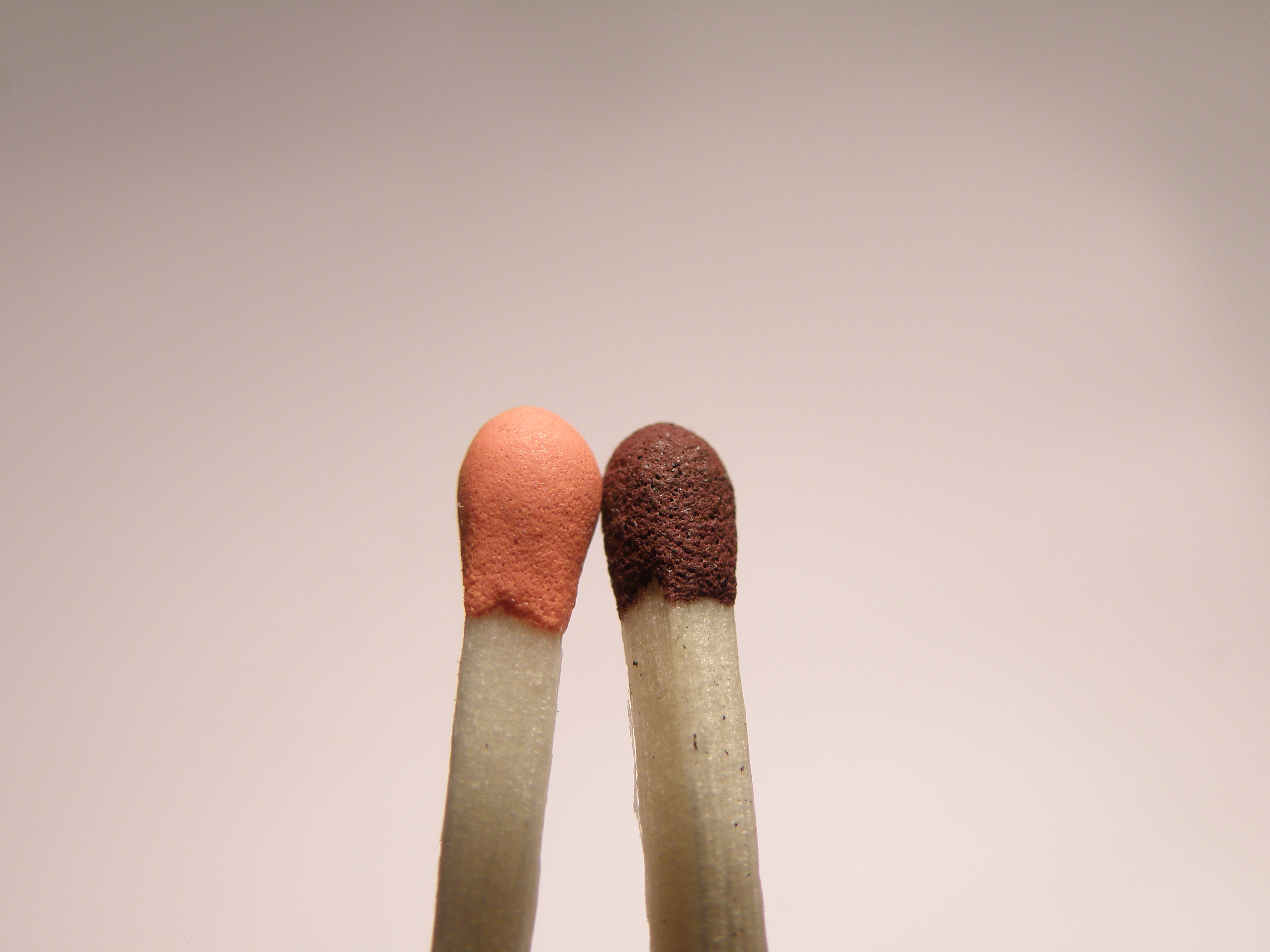 Macrophoto of two match heads.